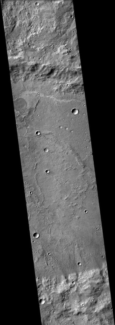 Lambert Crater, as seen by ctx